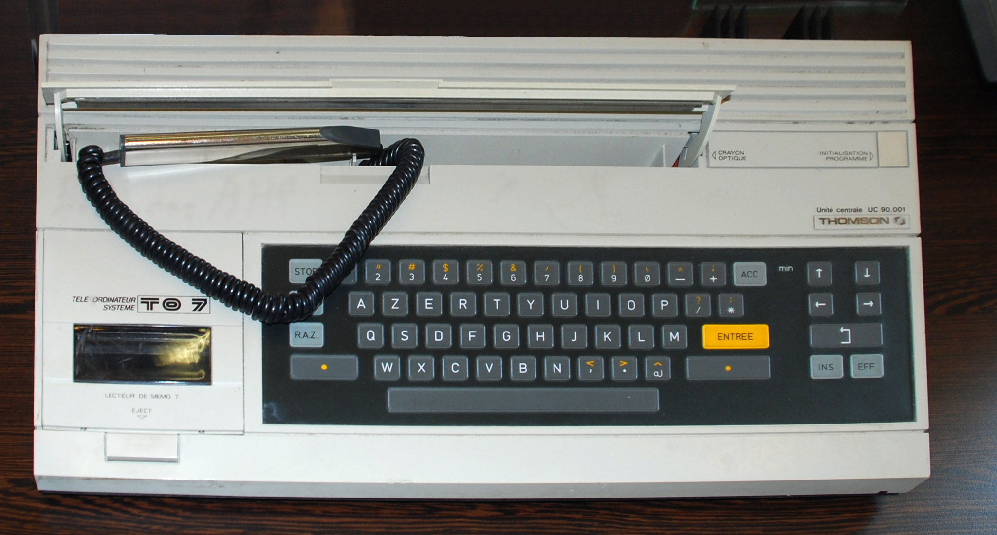 Thomson TO7 personal computer, with sensitif, keyboard.